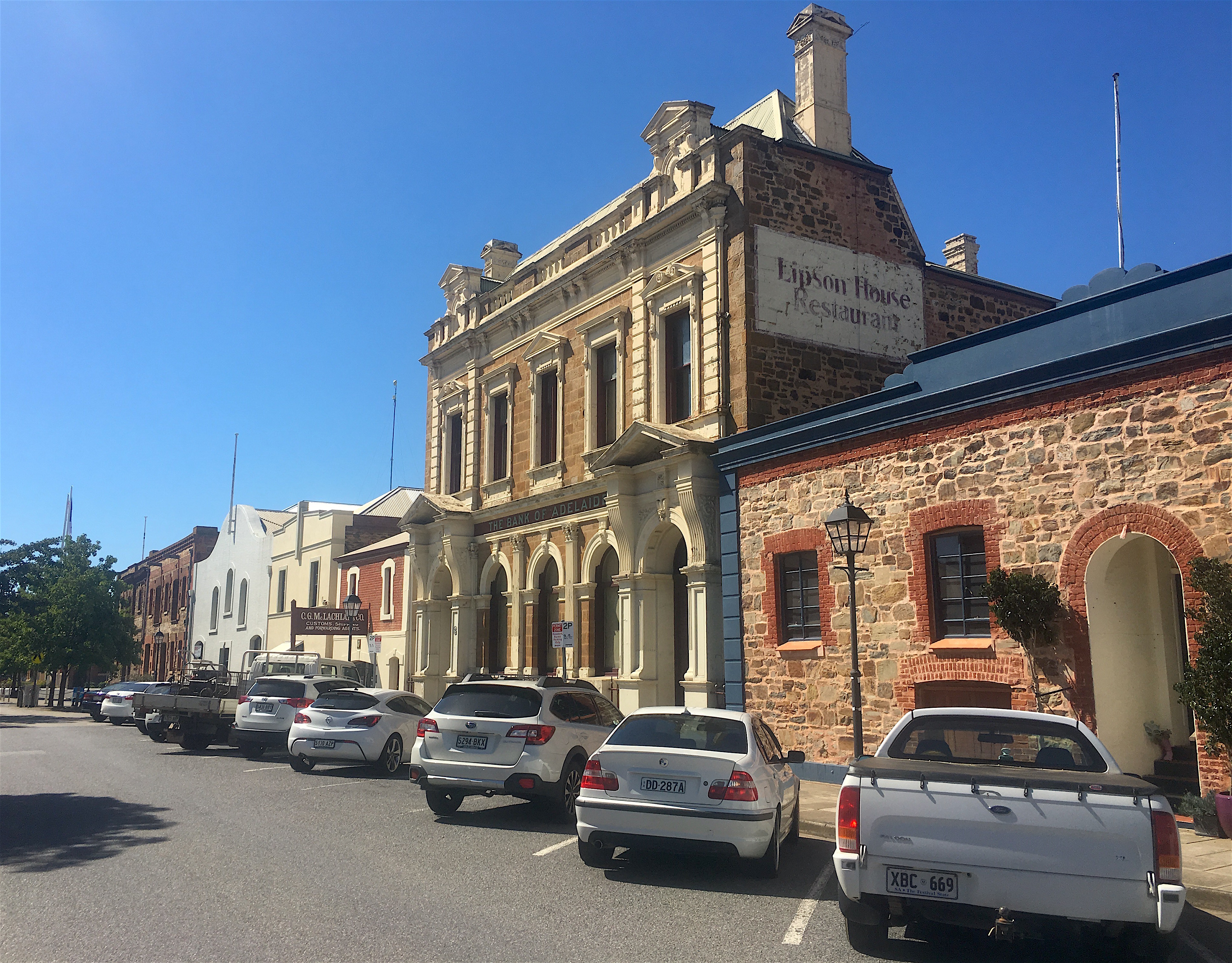 Lipton Street, Port Adelaide.